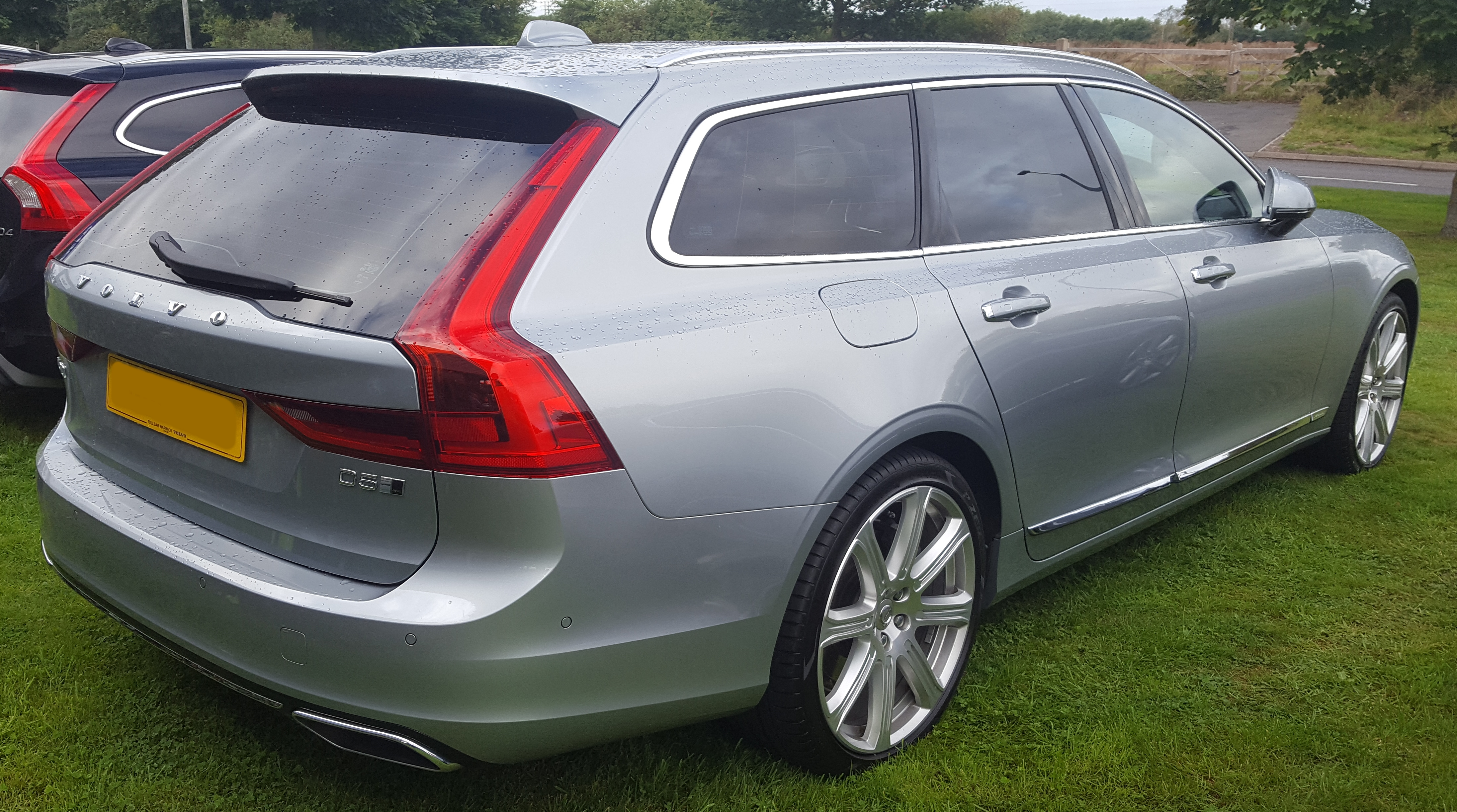 2016 Volvo V90 Inscription D5 PP AWD 2.0 Rear Taken in Leamington Spa